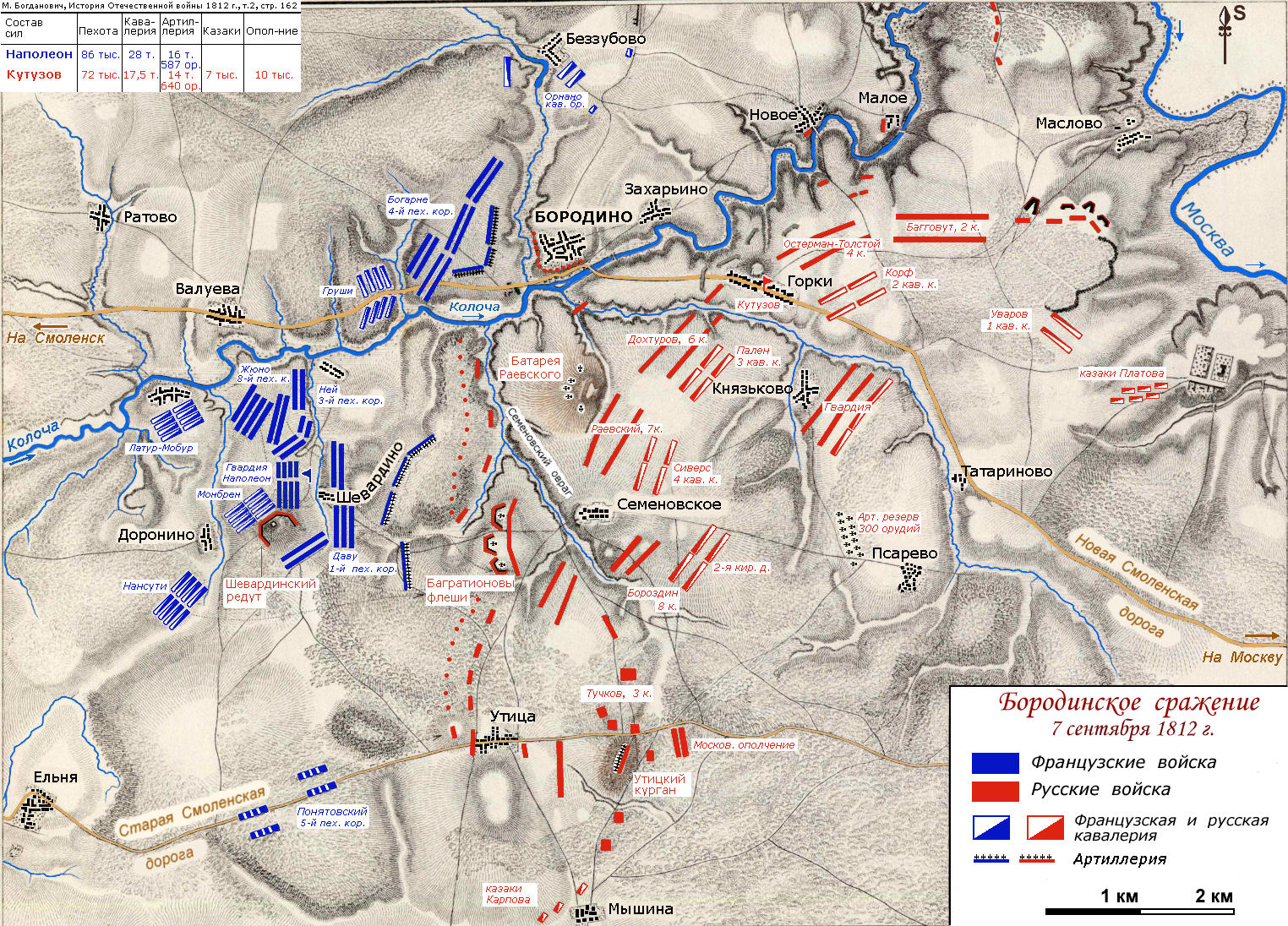 Map of the troops positions in the morning of September, 7, 1812. Battle of Borodino or Bataille de la Moskowa in french.